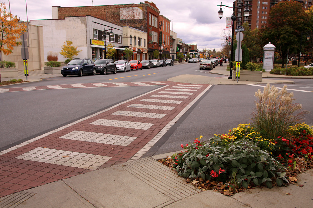 Victoria Avenue in Saint-Lambert, Quebec (October 2014)